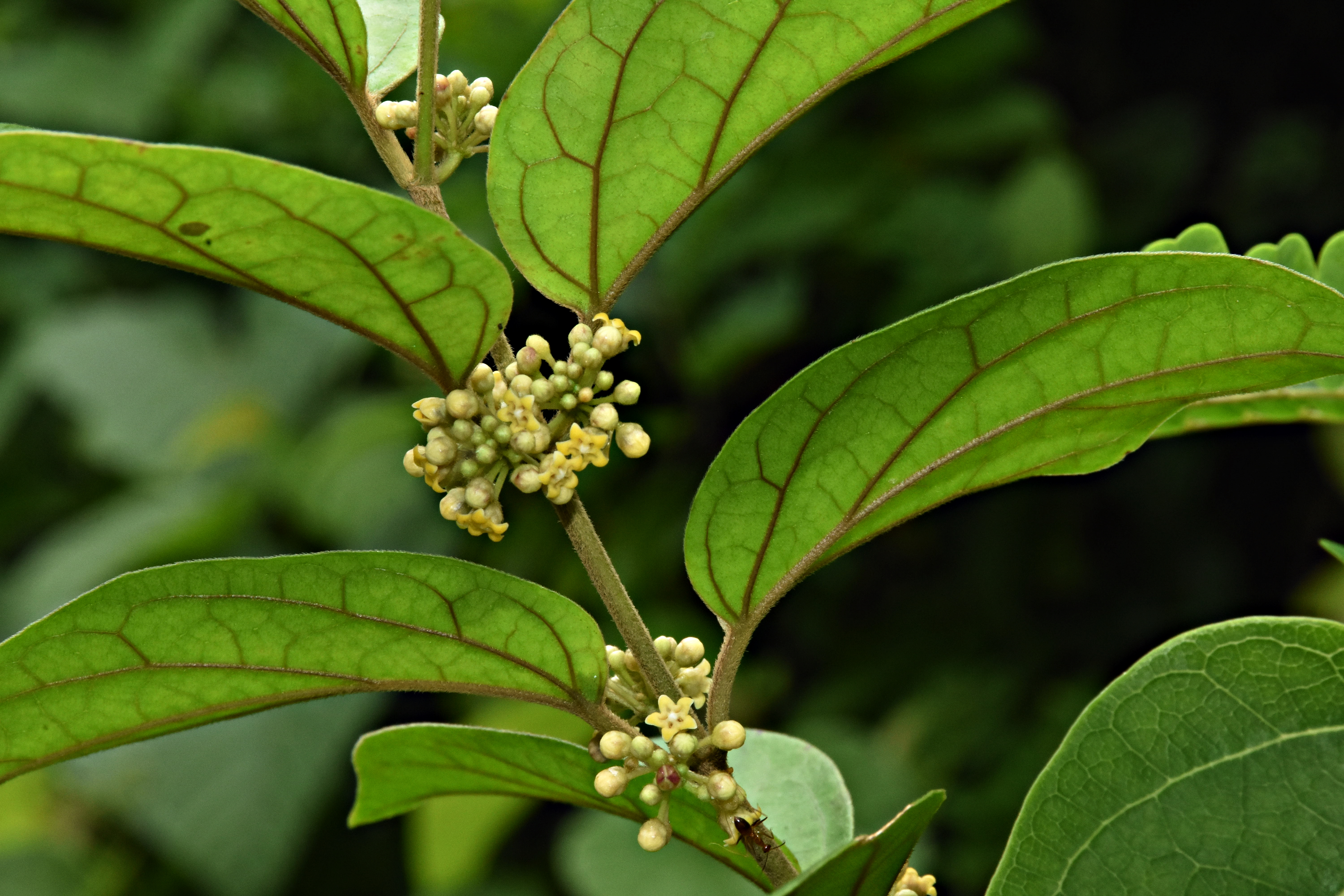 Gymnema sylvestre flowers at Neeliyar Kottam